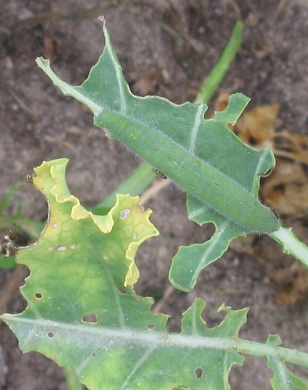 Pieris rapae with wasp on Curley kale